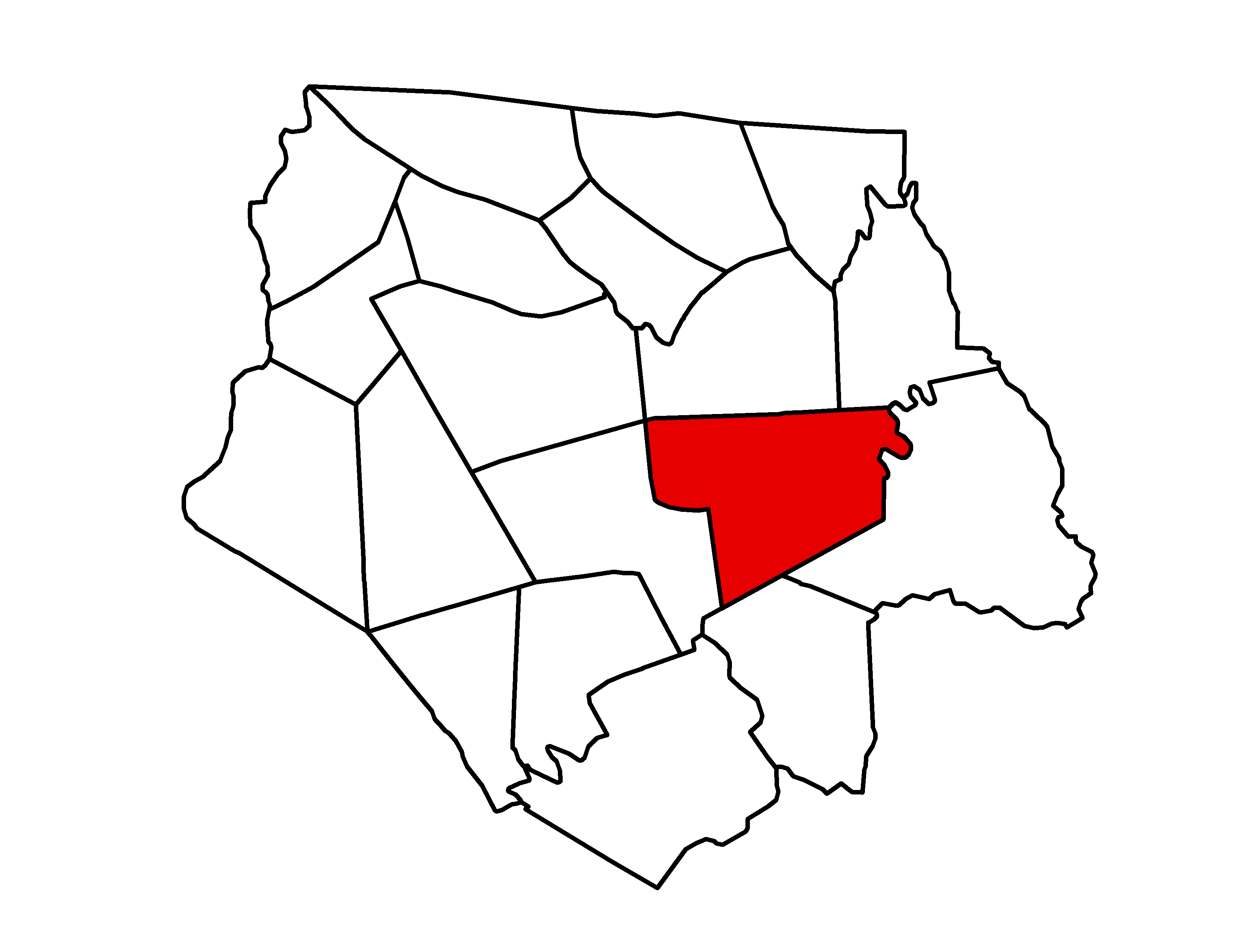 Map highlighting Jefferson Township in Ashe County, N.C.